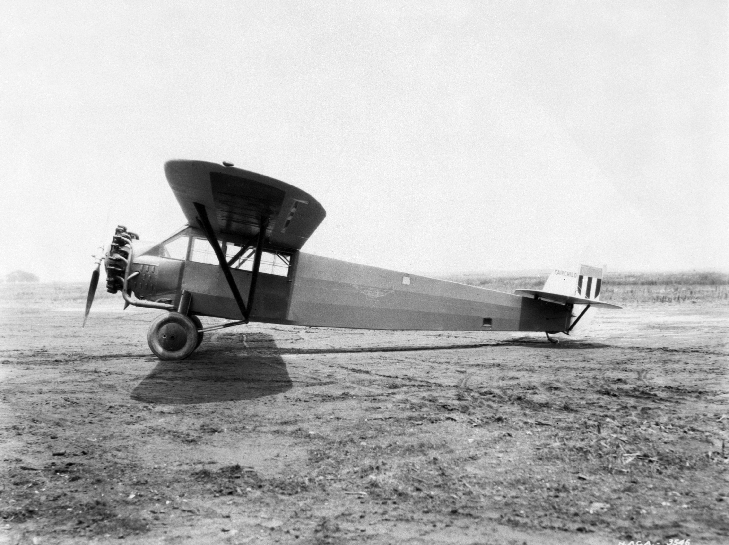 The first aircraft purchased by the NACA was this Fairchild FC-2W2. Marked as "NACA 26," this aircraft was the first to be flown in a NACA paint scheme. The colors applied to this Fairchild were blue fuselage, silver wings and tail. The wing had a yellow stripe down the middle, from tip to tip. A red, white and blue shield was added to the rudder. It was used by NACA in an effort to correlate wind tunnel and flight aerodynamic characteristics.